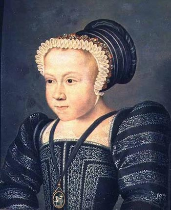 Potrait of Princess Marie Elisabeth de Valois. She was born on 27 October 1572. She was the daughter of Charles IX, Roi de France and Elisabeth Erzherzogin von Österreich. She died on 2 April 1578 at age 5.